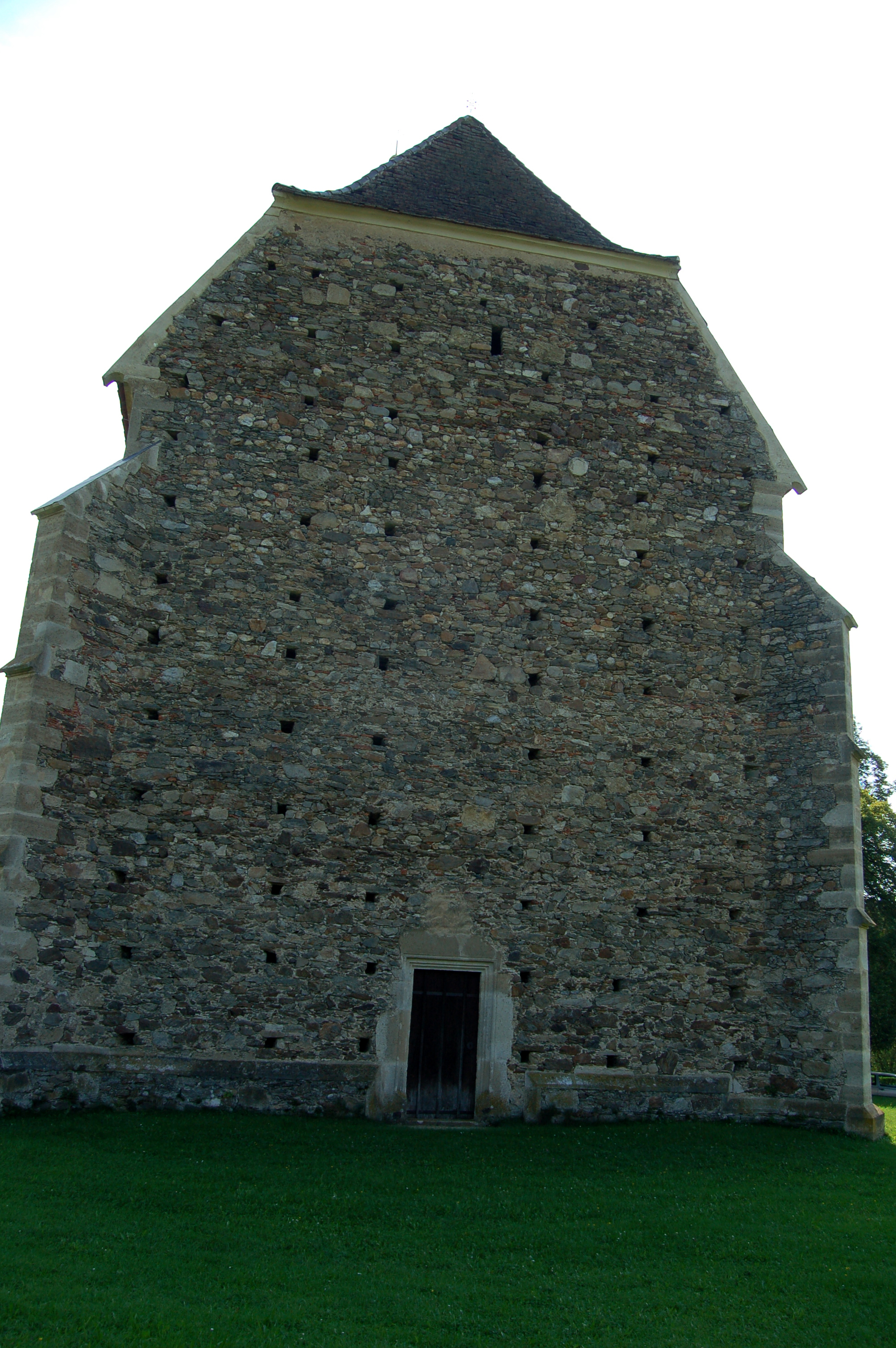 Gotic church St. Stefan in Hofkirchen bei Hartberg, Styria, Austria.